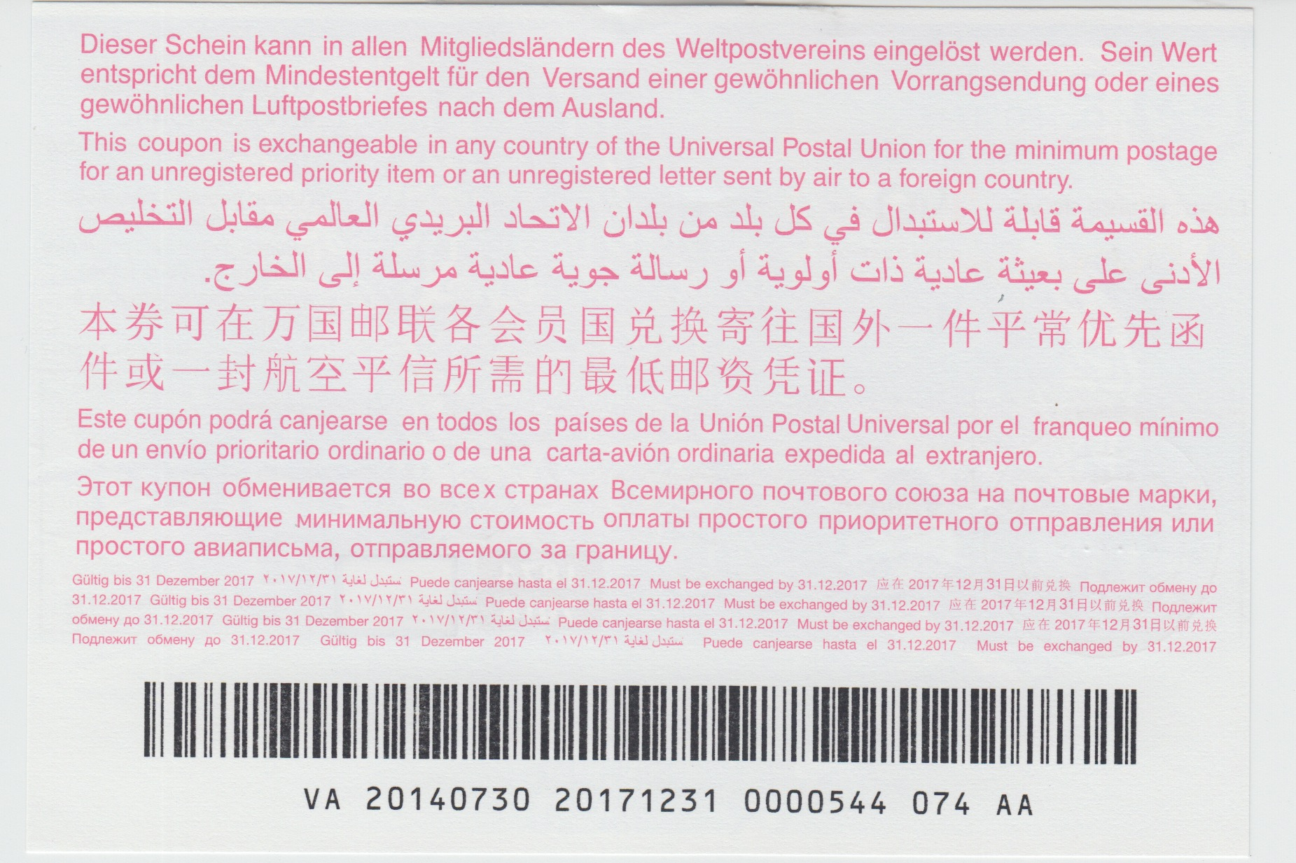 Verso of any "Doha" model international reply coupon. This particular coupon was issued by the Vatican City State.